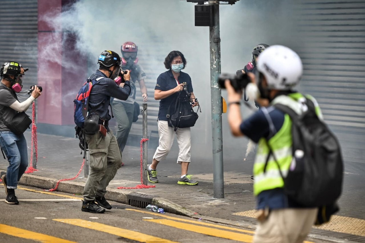 Woman feel not well from the tear gas